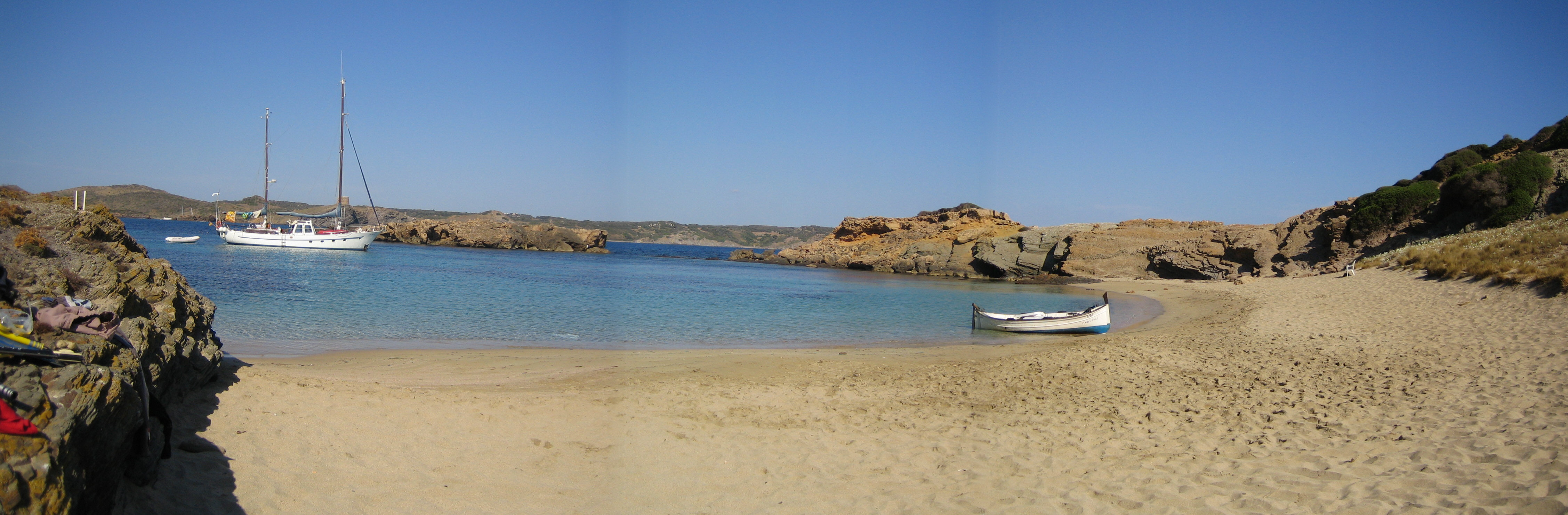 Beach of Minorca, Arenal d'en Moro.